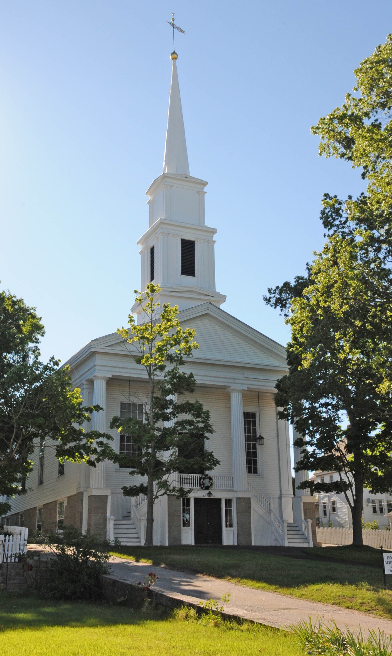 PAWCTUCK SEVENTH DAY BAPTISTS FOUNDED IN 1840 IS A KEY STRUCTURE